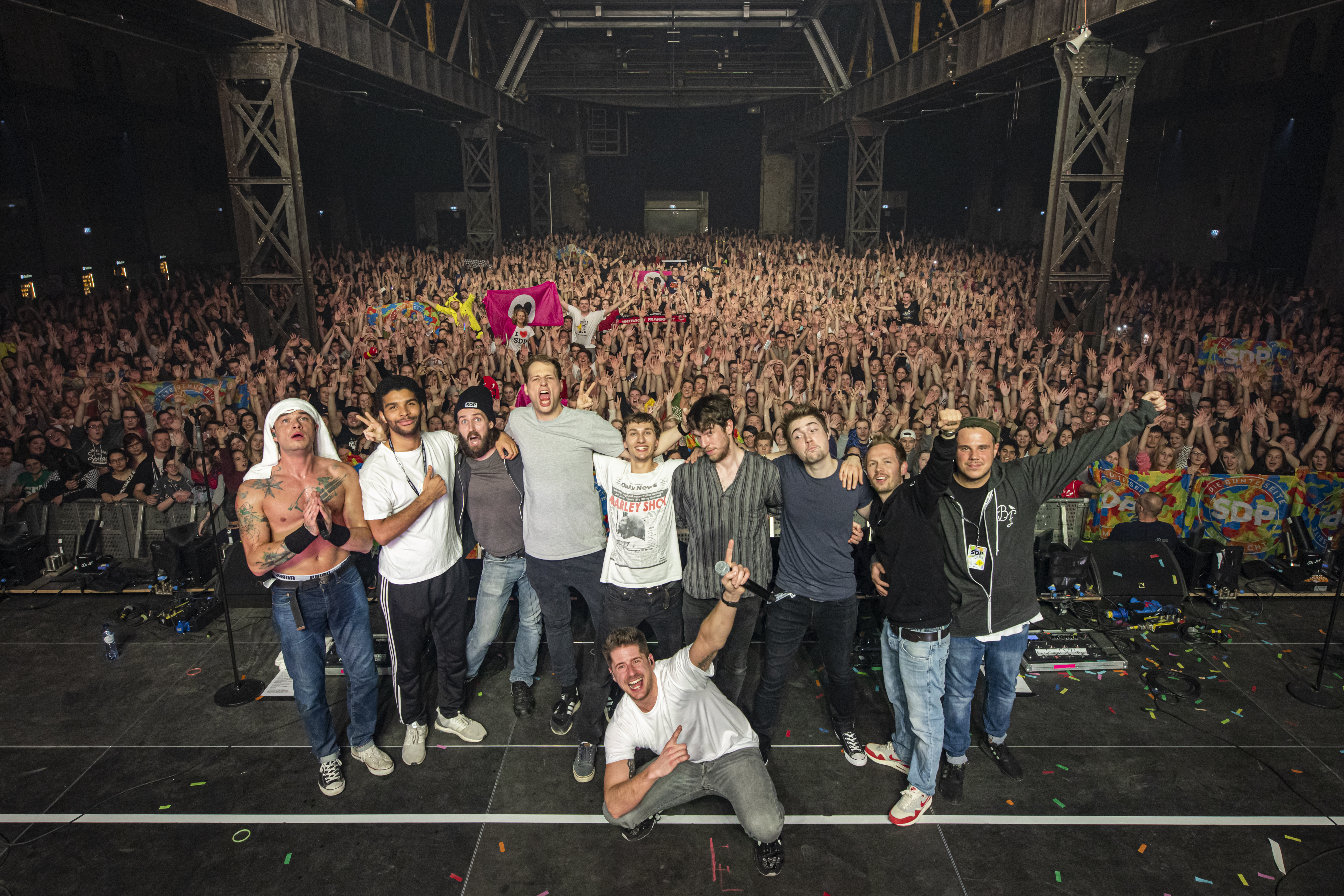 SDP and Weekend at Warsteiner Music Hall, Dortmund